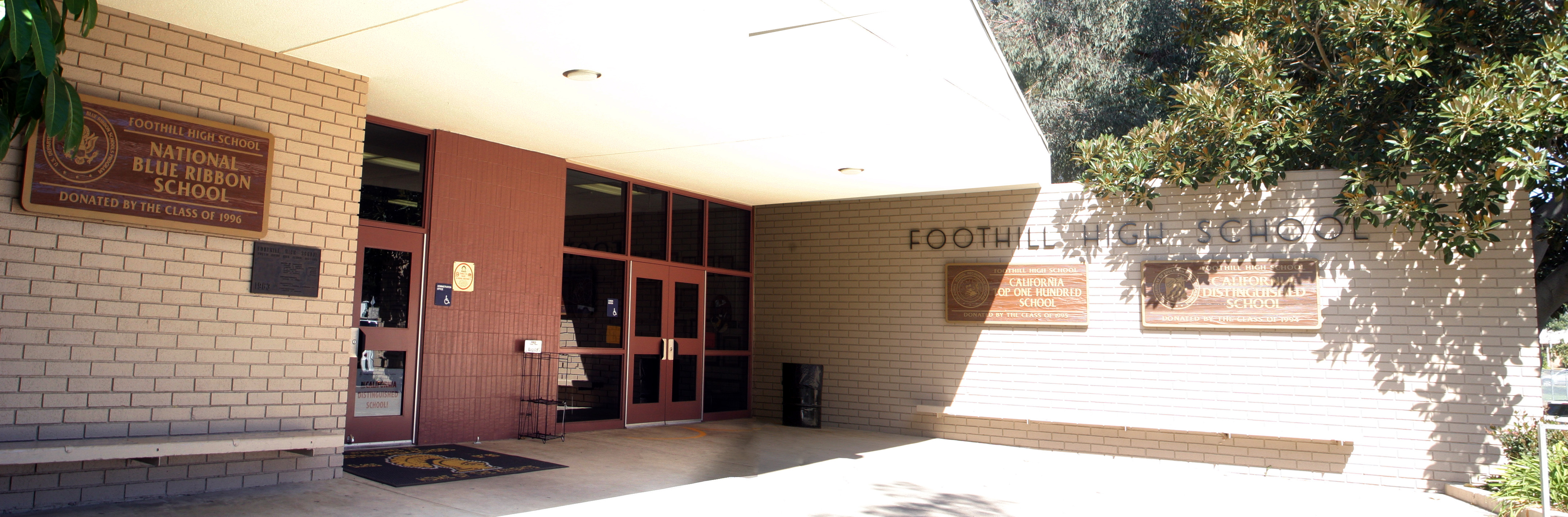 The front office at Foothill High School, Santa Ana. Two images combined for panorama view